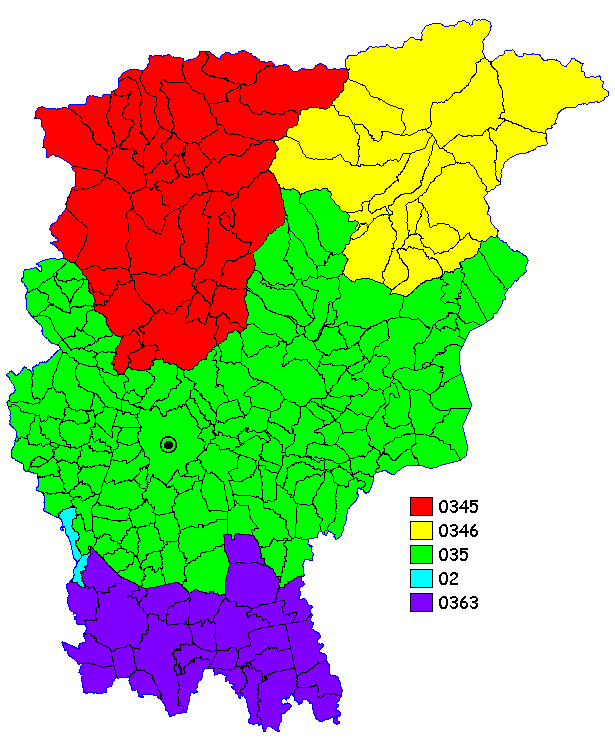 Map of telephone area codes of the province of Bergamo